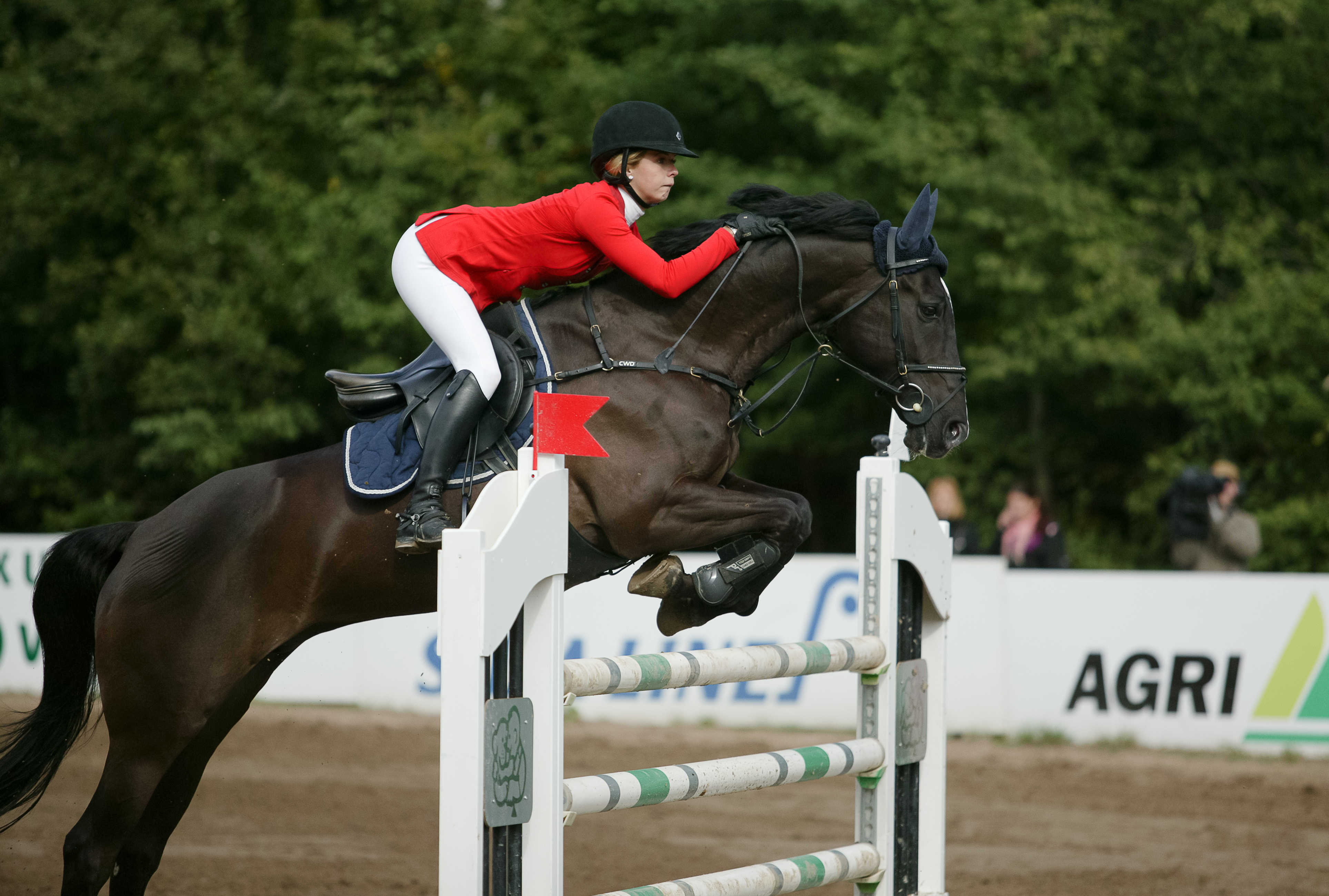 Anna-Julia Kontio with stallion Konstantinos